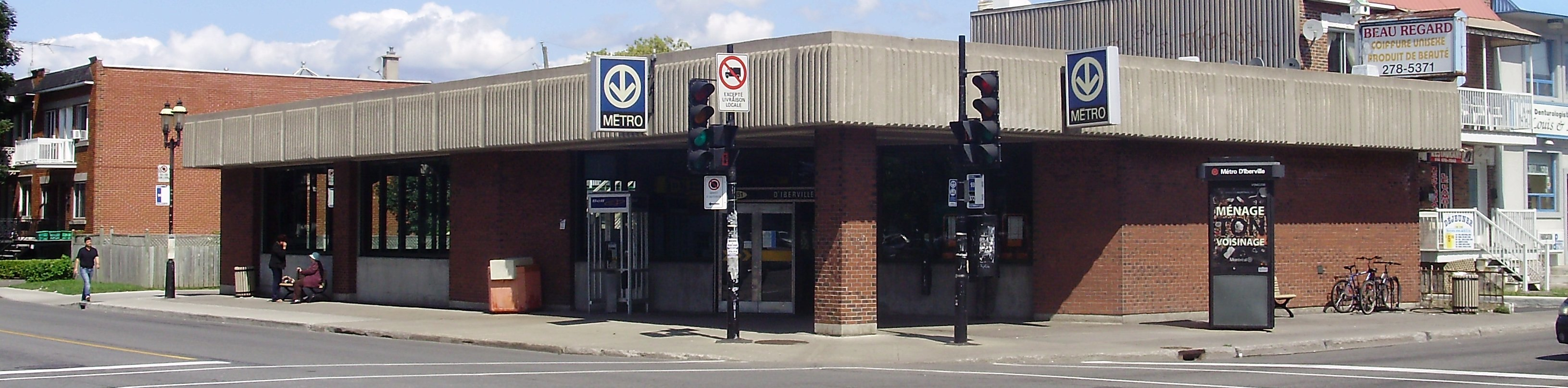 The Société de transport de Montréal's D'Iberville metro station in Montreal, Quebec, Canada.